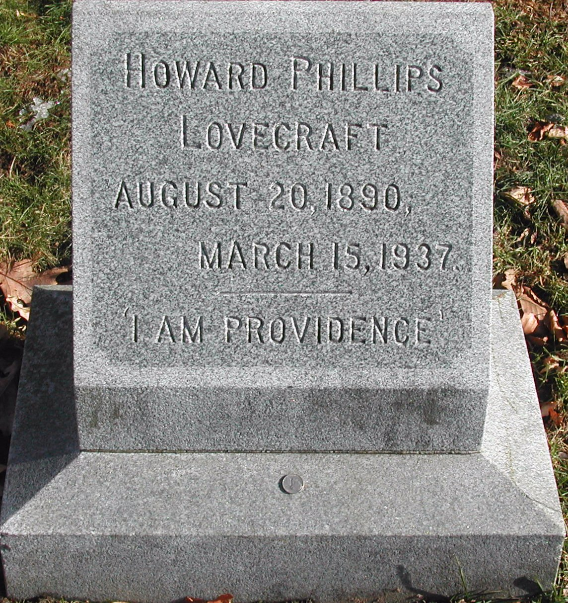 H.P. Lovecraft's tombstone, Swan Point Cemetery